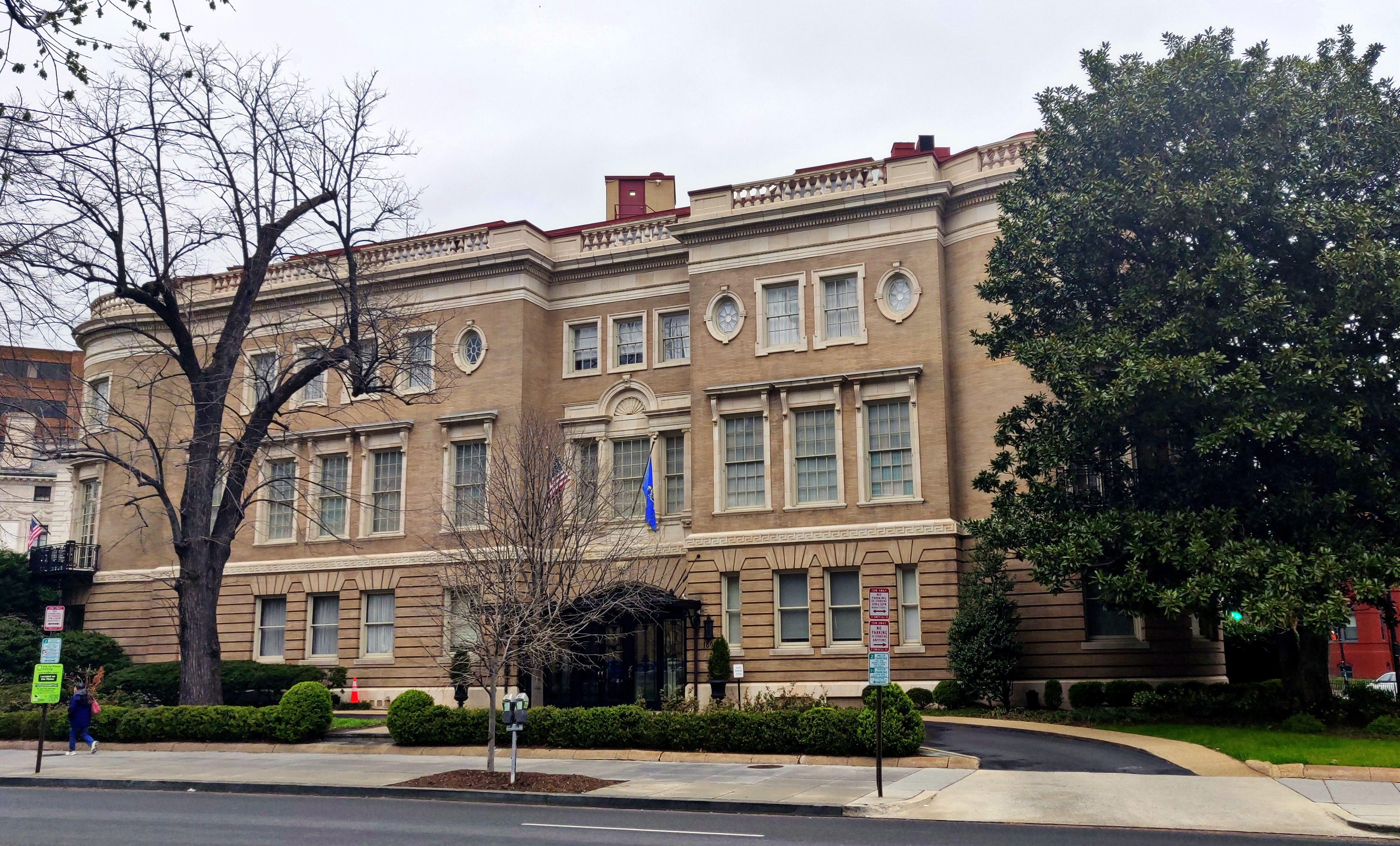 house